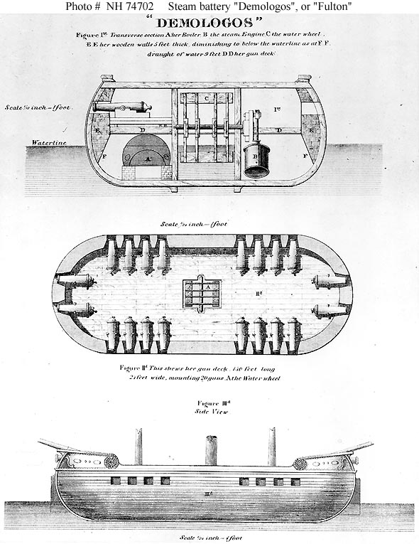 General arrangement of Demologos, first steam warship.